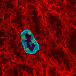 Microscopy of kidney tissue showing tubules. One tubule is highlighted to show epithelial cells (blue), cell nuclei (green) and the tubule lumen (dark center). Source: my personal image. The copyright to this image is retained by John Schmidt (JWSchmidt). Permission is granted to copy, distribute and/or modify this image under the terms of the Wikipedia GFDL, as indicated in the fine print at the bottom of this page. If you do not want to use this image under the terms of the GFDL, you can alternatively use it under the terms of the cc-by-nc-sa license.